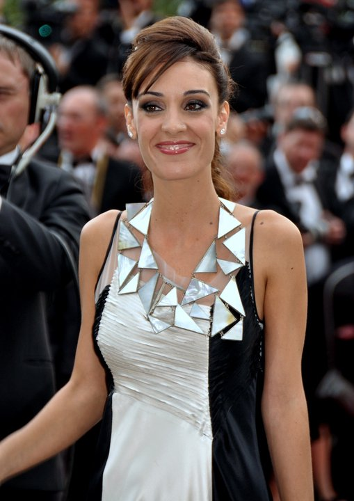 Martina Gusman at the Cannes film festival